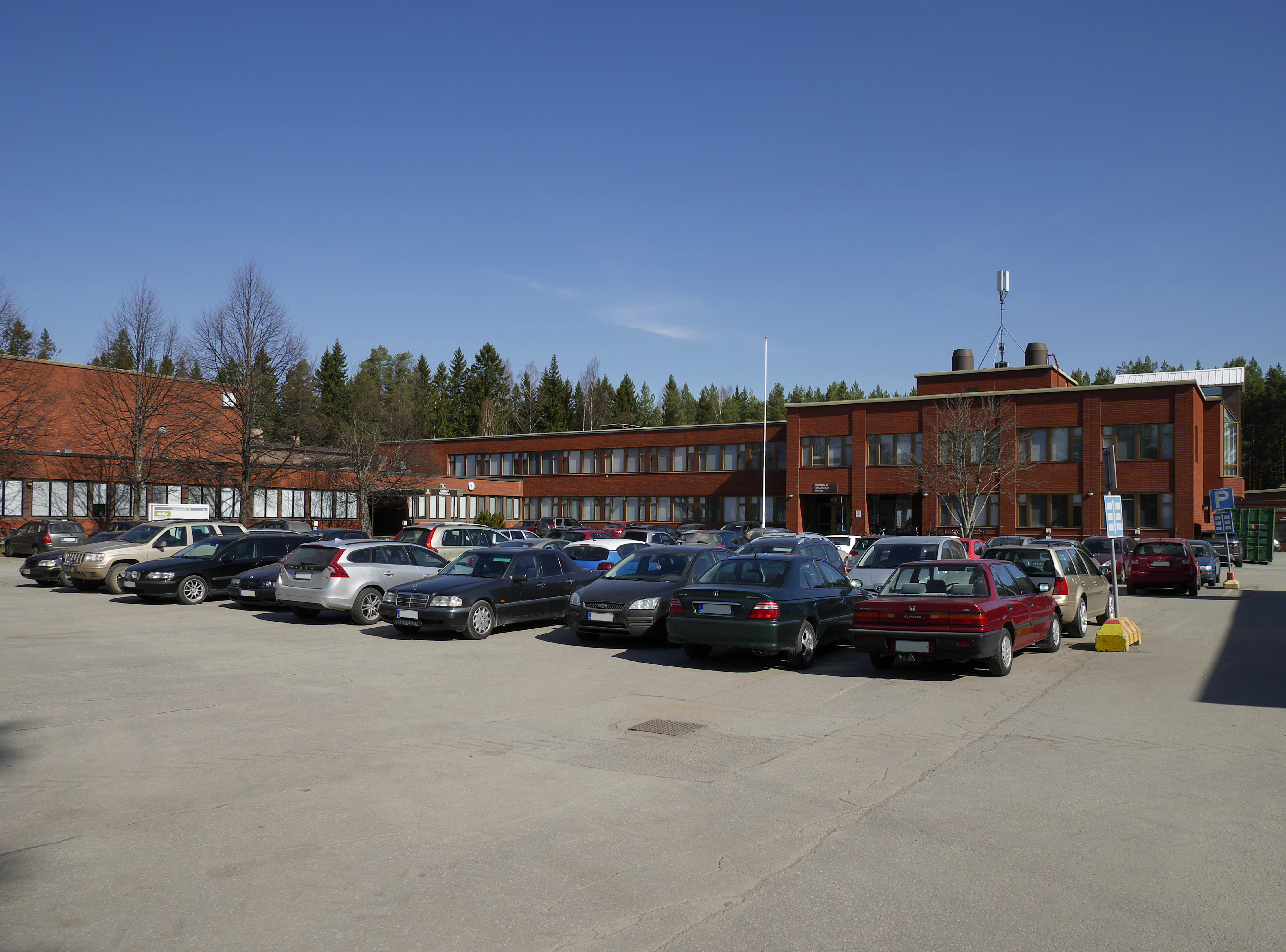 Vocational school Sedu in Seinäjoki.